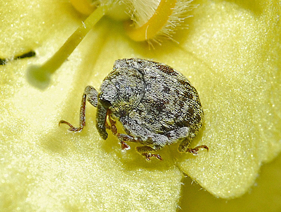 Cionus hortulanus feeding on Verbascum. Val Veny, Aosta, Italy